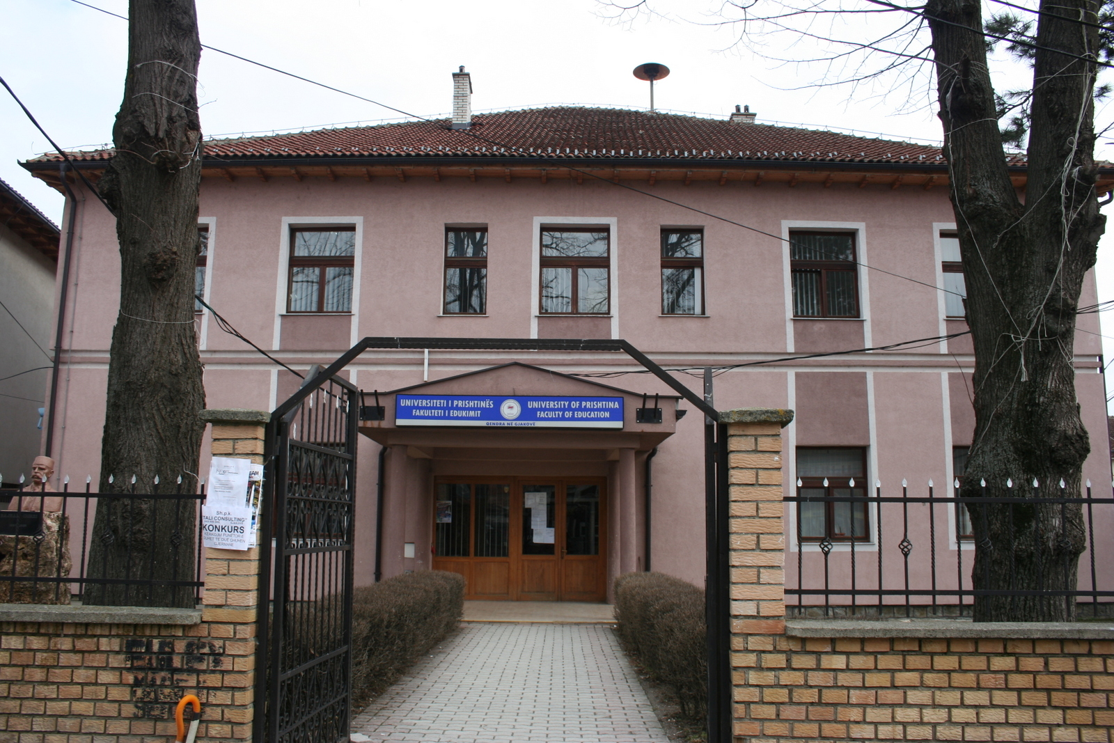 Fakulteti i Edukimit - Gjakovë